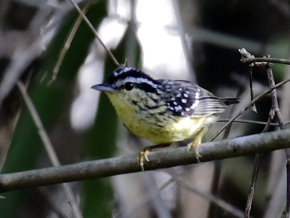 Yellow-breasted Warbling-Antbird at Rio Branco, Acre, Brazil